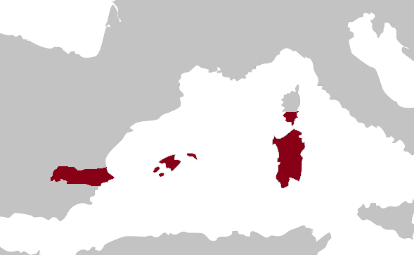 fgyuiop^$